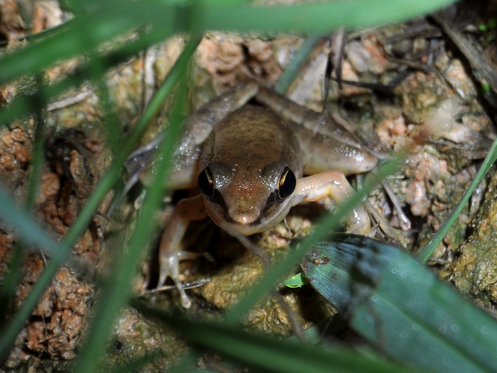 Hylarana nicobariensis, male, from Jambi, Indonesia